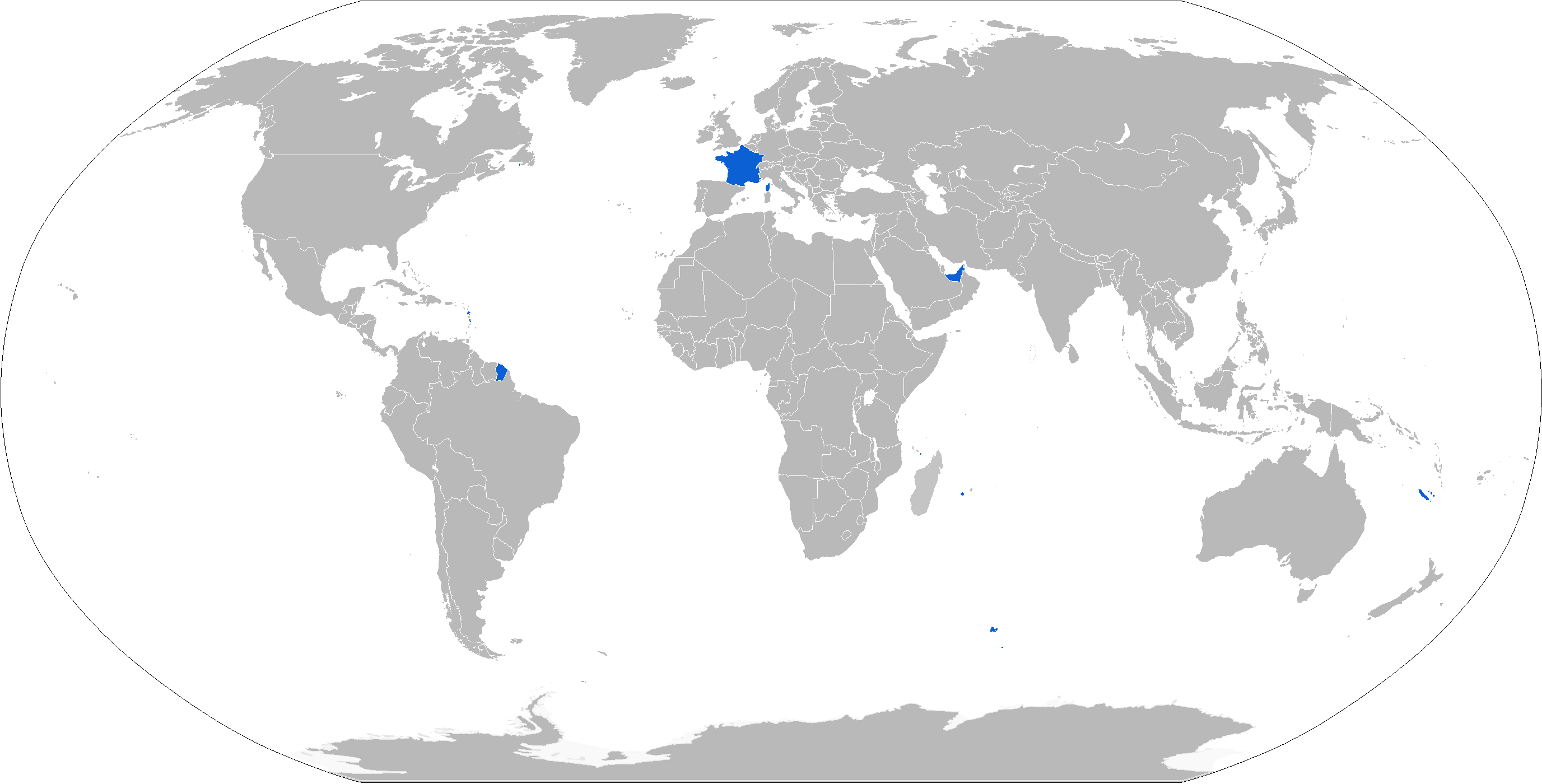 Map of AMX Leclerc operators.